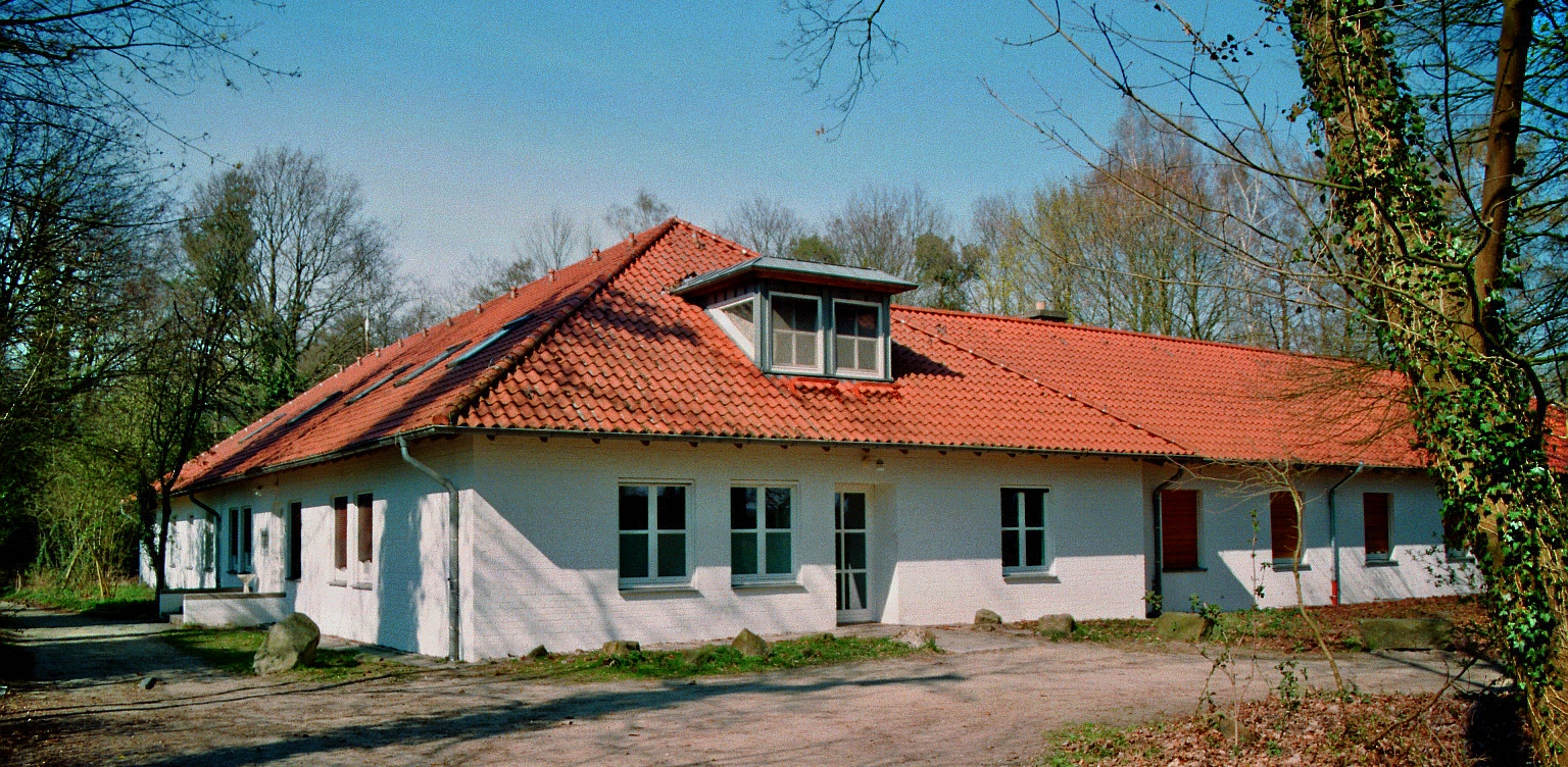 LWL Museum für Naturkunde Münster branch „Heiliges Meer“ in Recke-Obersteinbeck, Kreis Steinfurt, North Rhine-Westphalia, Germany.